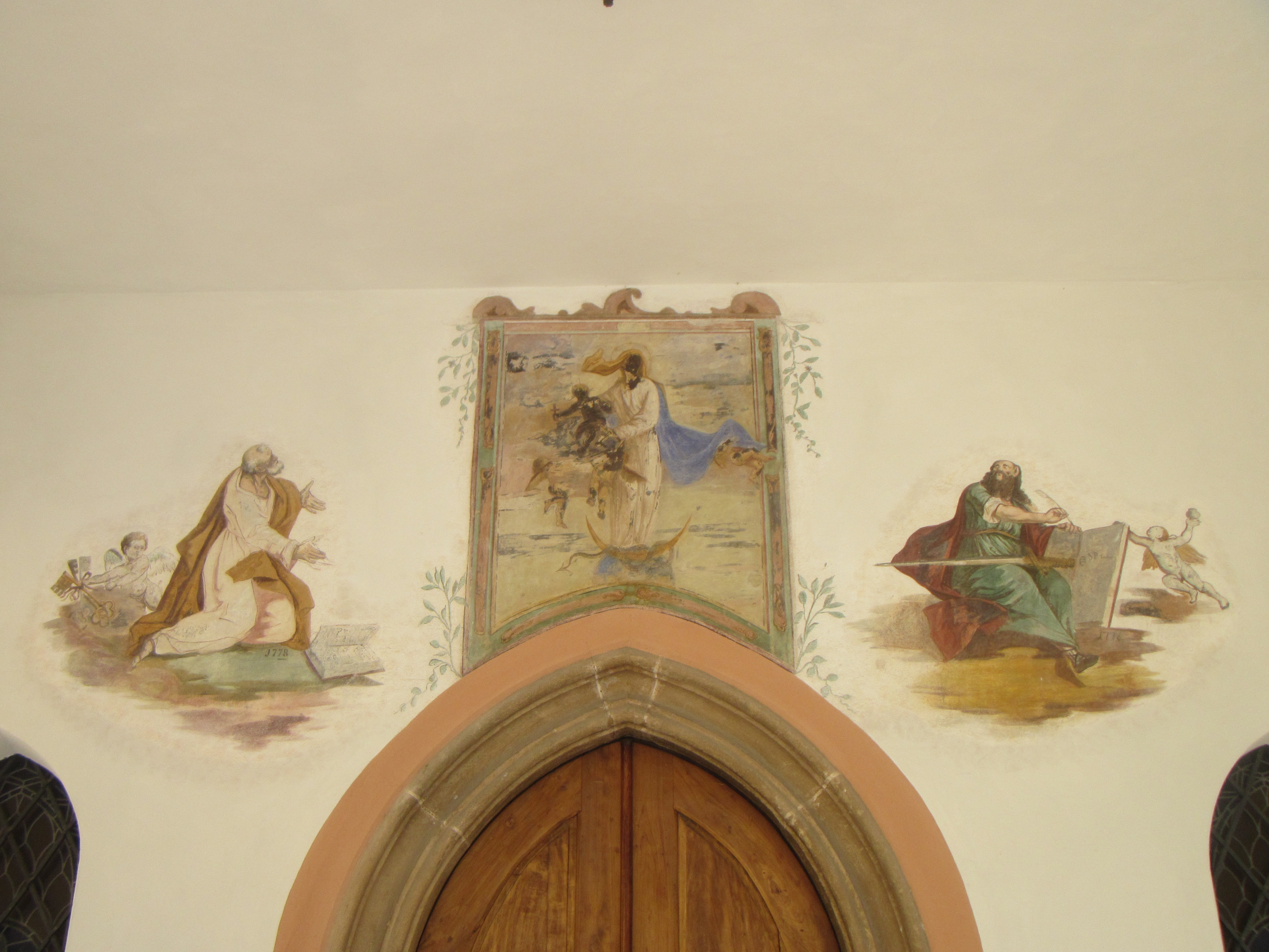 Piazzo, Segonzano - church of the Immaculate - frescos above the entrance door, 1778